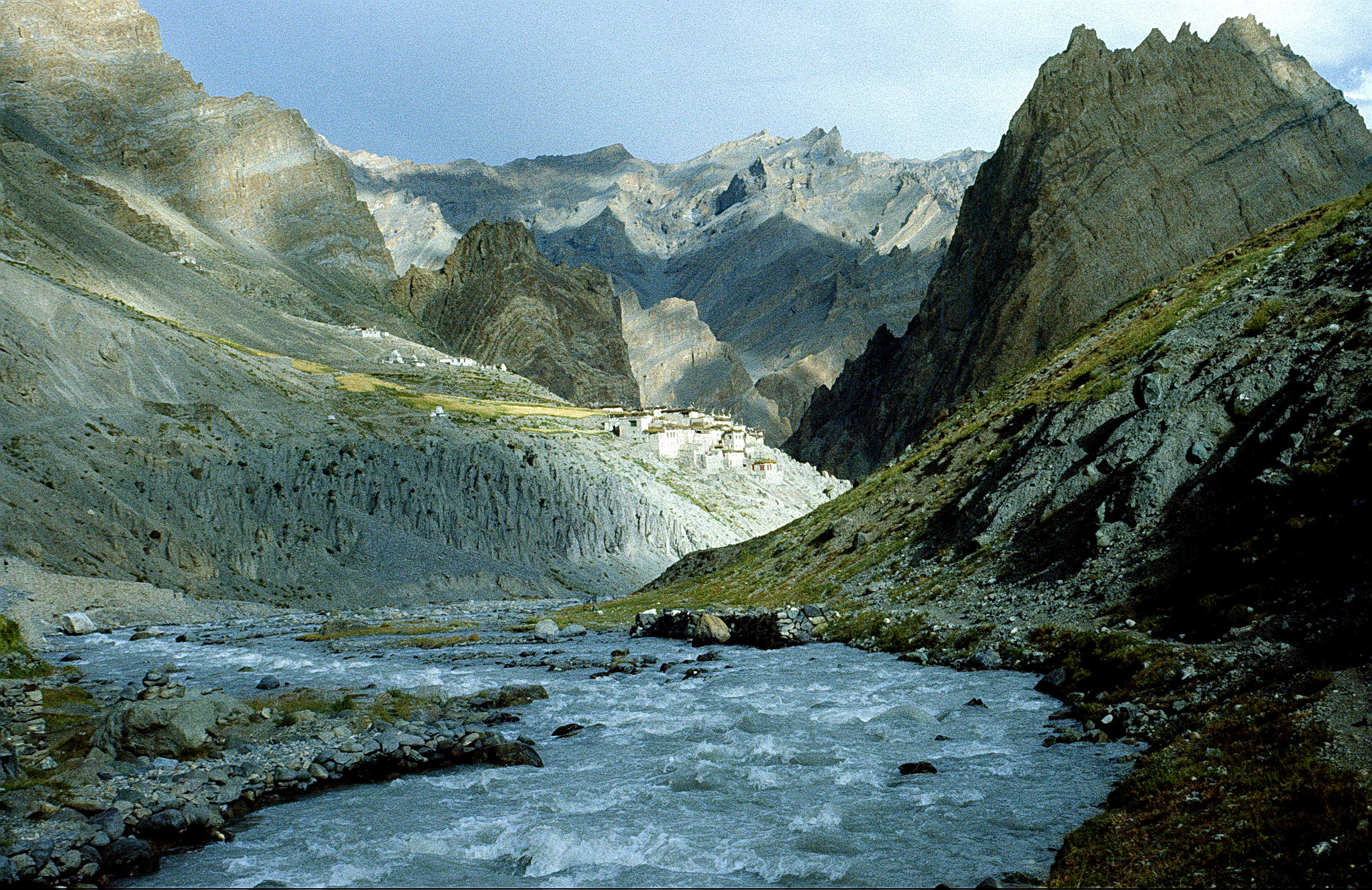 Char village along Tsarap river.